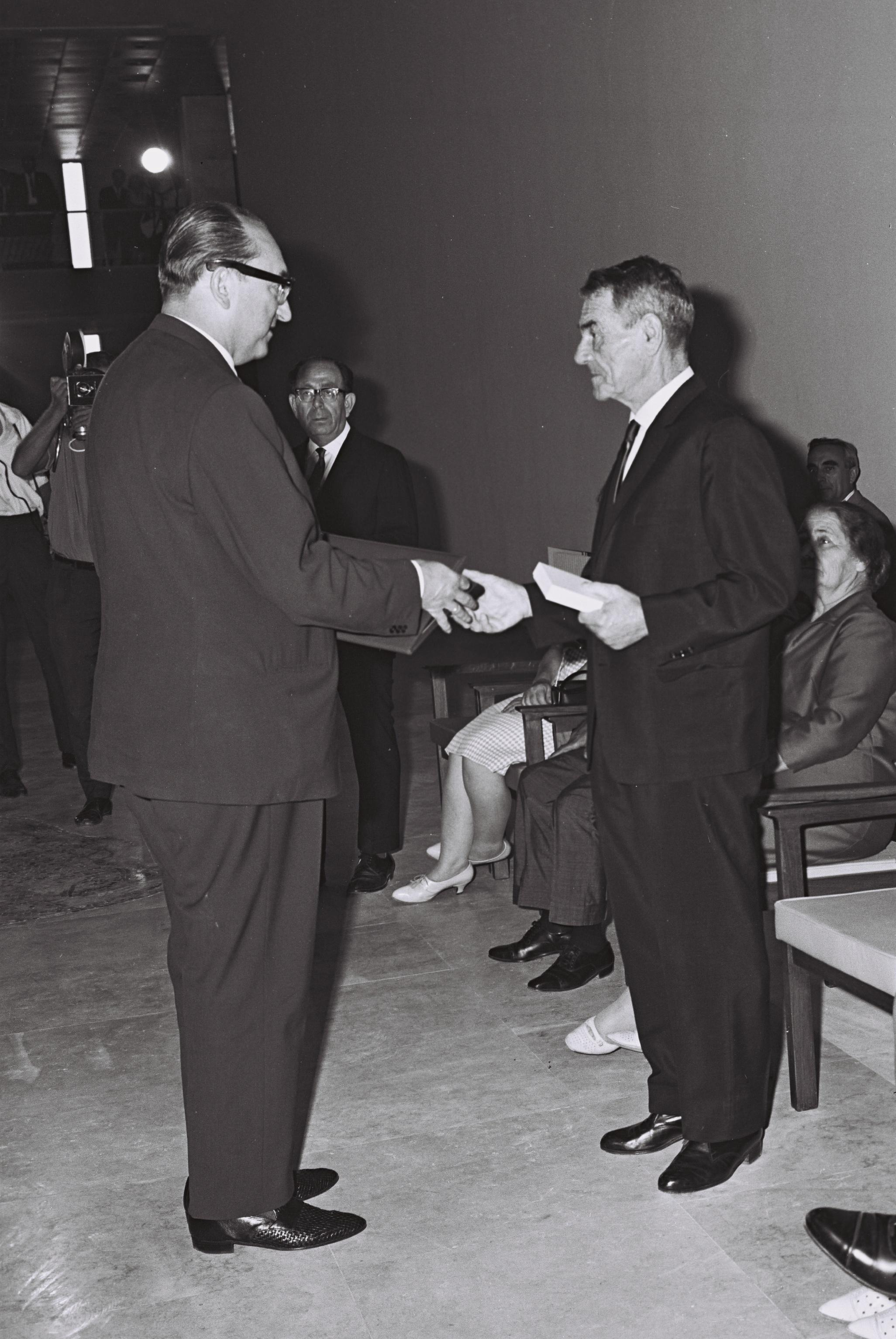 KADISH LUZ & THE PRESIDENT OF AUSTRIAN NATIONAL COUNCIL DR. ALFRED MALETA EXCHANGING GIFTS IN A CEREMONY AT THE RECEPTION HALL IN THE NEW KNESSET BUILDING IN JERUSALEM.